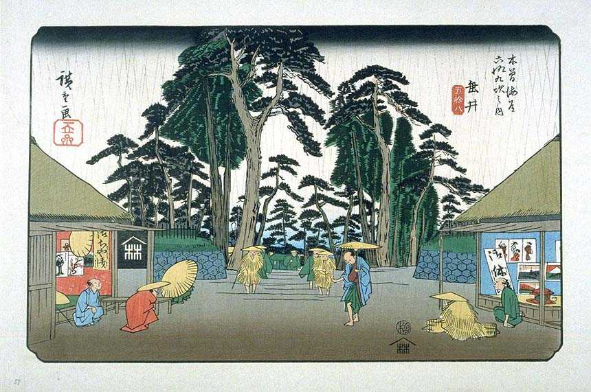 Tarui on the Kisokaido, ukiyo-e prints by Hiroshige